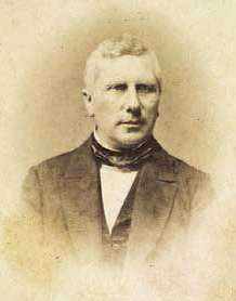 Christian Henrik Brasch